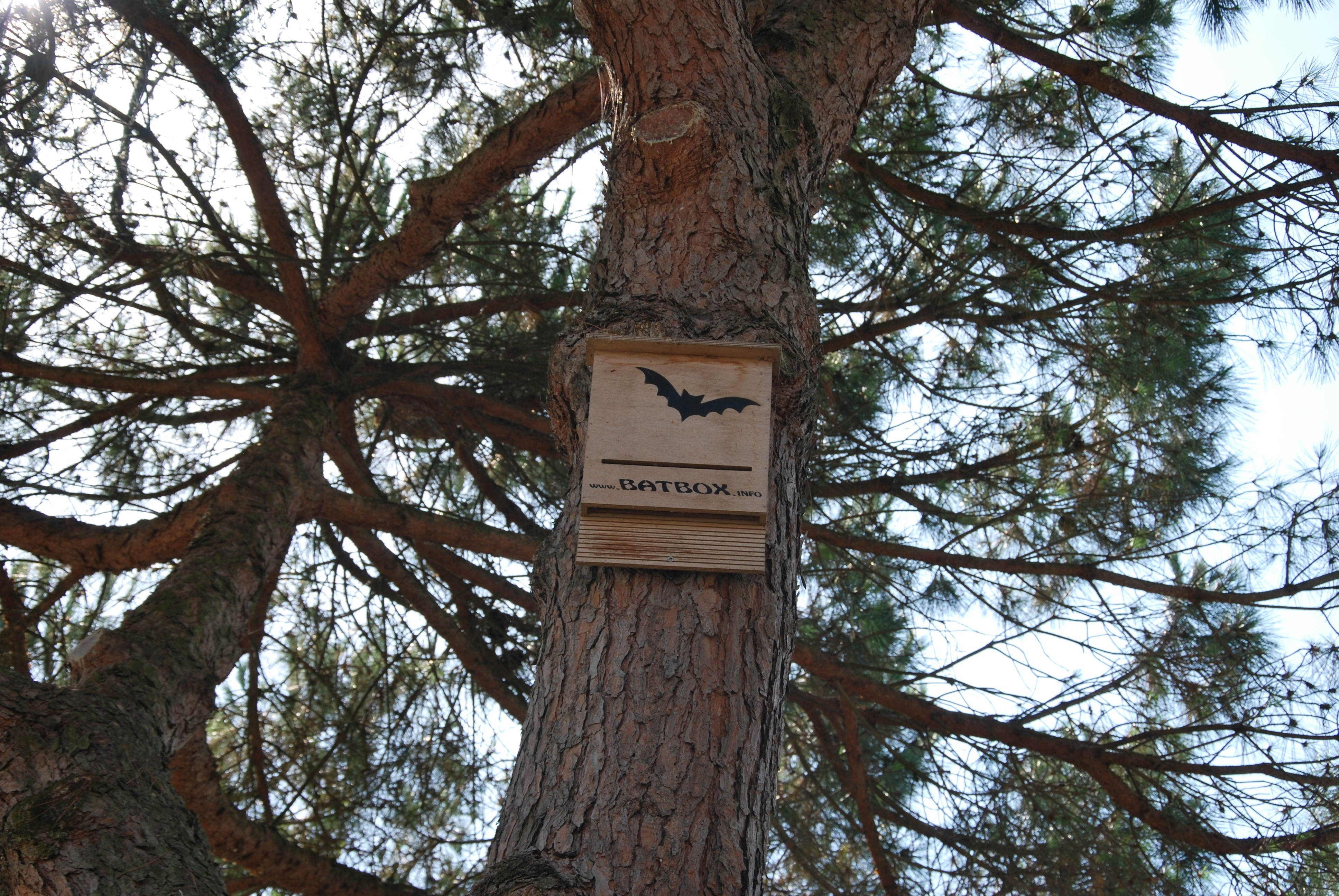 Batbox in Comacchio